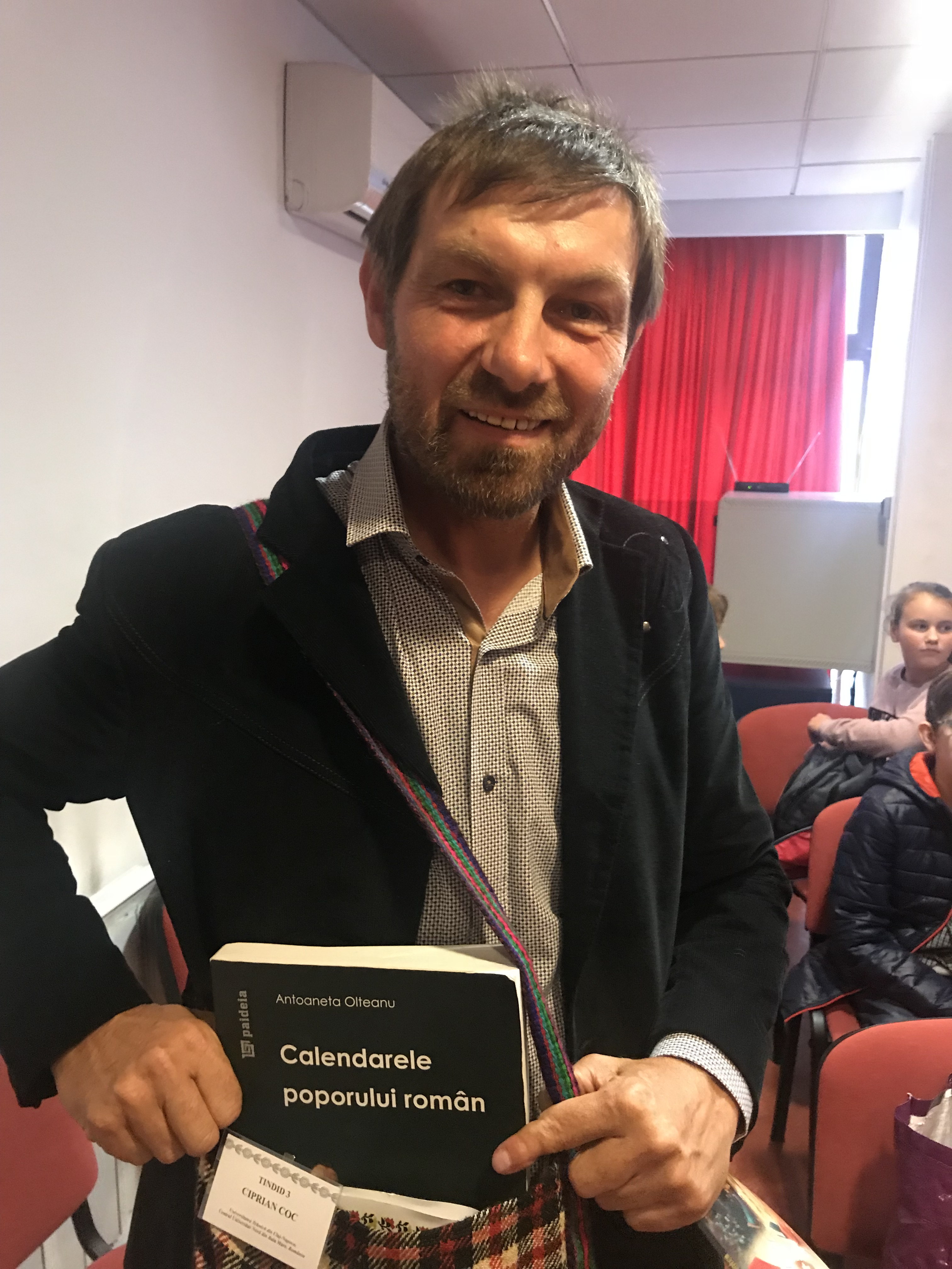 Calendare la traistă! Cu Ciprian Coc, 2017, Baia-Mare